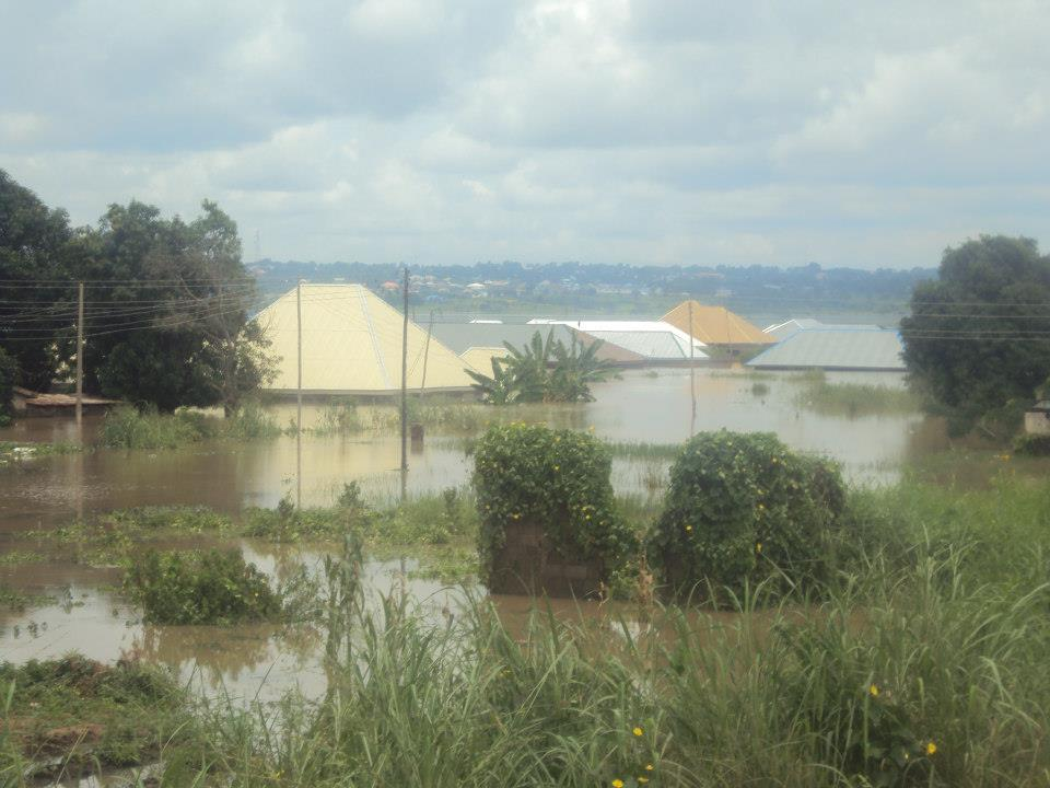 Houses submerged in Makurdi town Nigeria due to the flooding of Ladgo reservoir in Cameroon